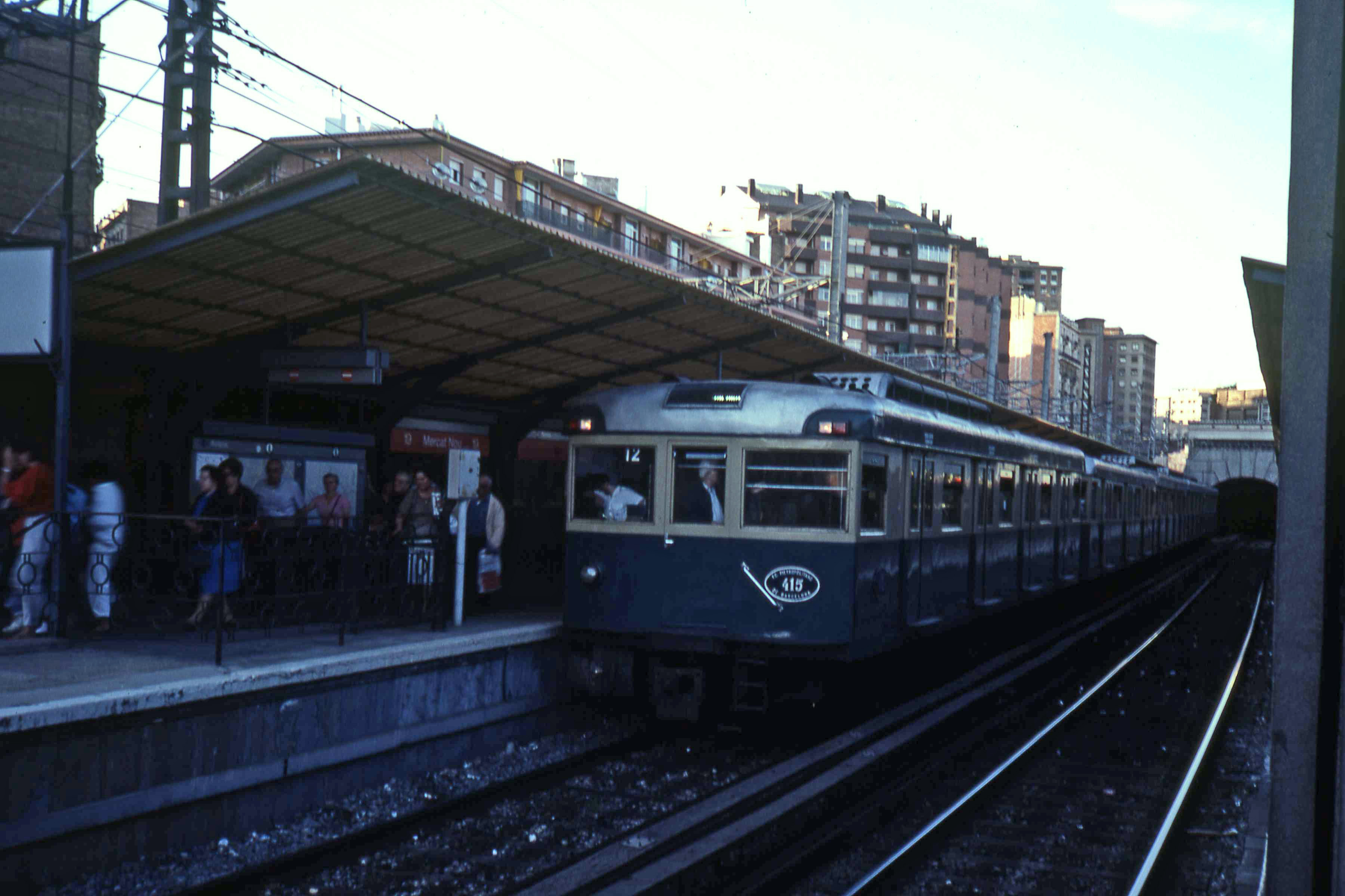 Old metrotrain type 600 op metroline 1